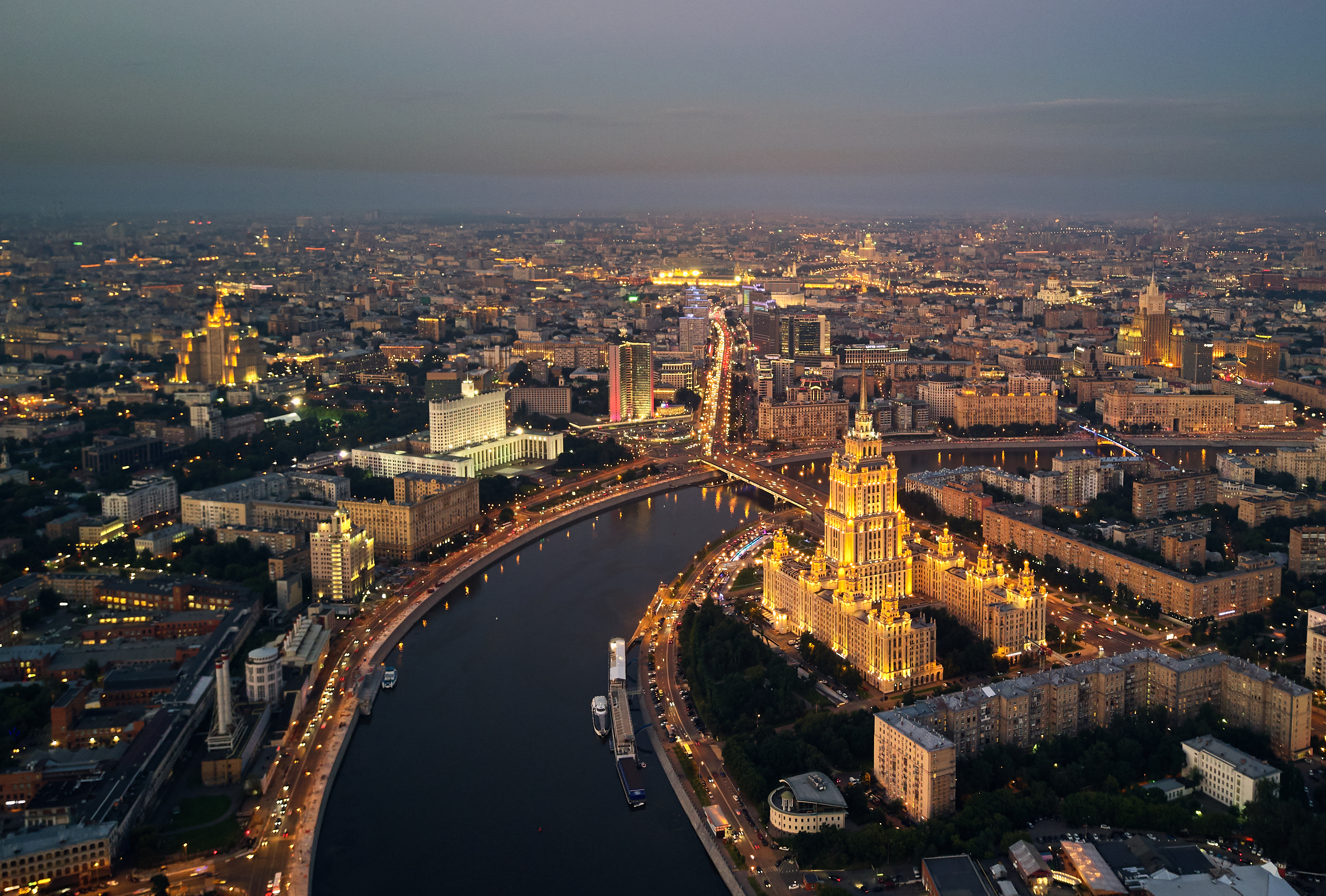 Moscow: Hotel Ukraine